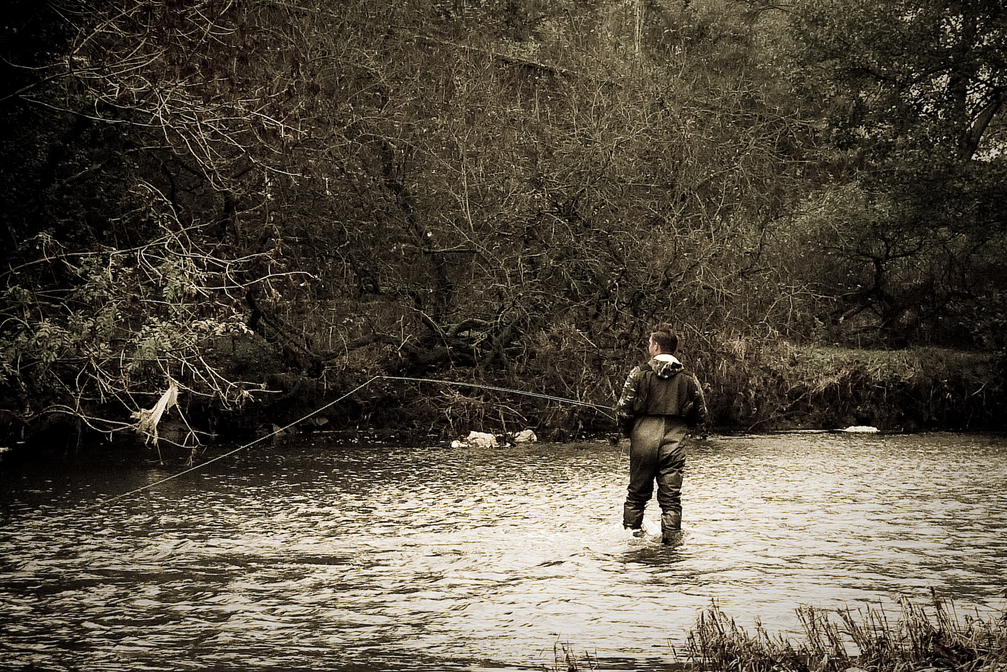 Fly fishing on the River Severn